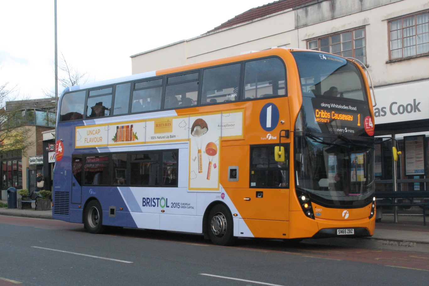 An Enviro400 MMC on First Bristol's route 1 at Westbury on its way to Cribbs Causeway. 33951 is registered SN65ZBZ.